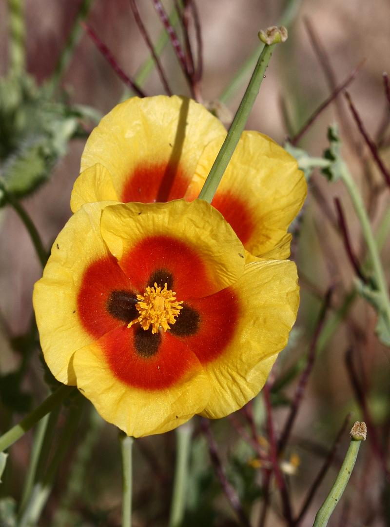 Mountain Horned-poppy (Glaucium flavum var. leiocarpum), Plants of Israel